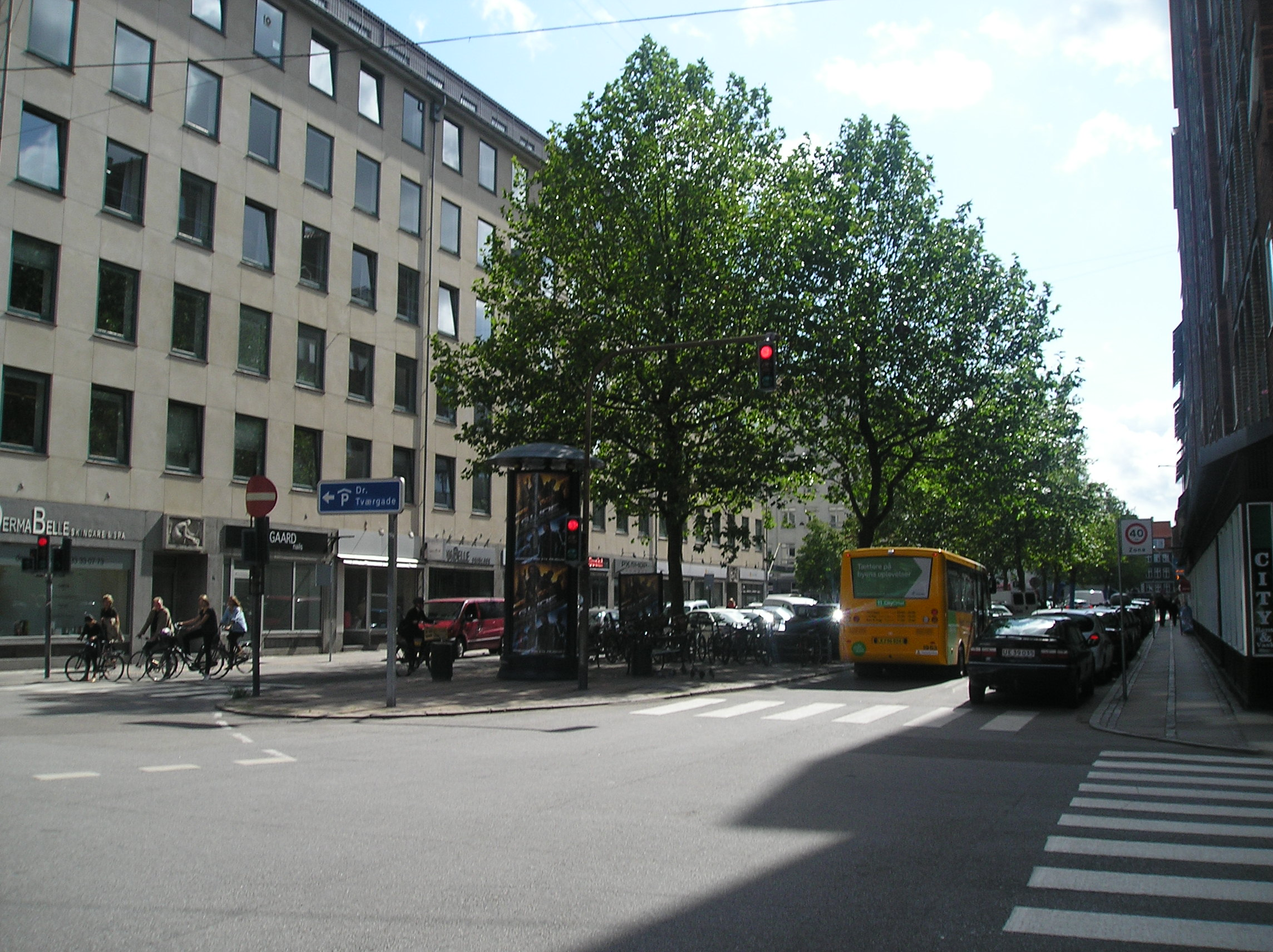 The street Borgergade in Copenhagen at Dronningens Tværgade. The little bus on the right belongs to the newly opened line Citycirkel.